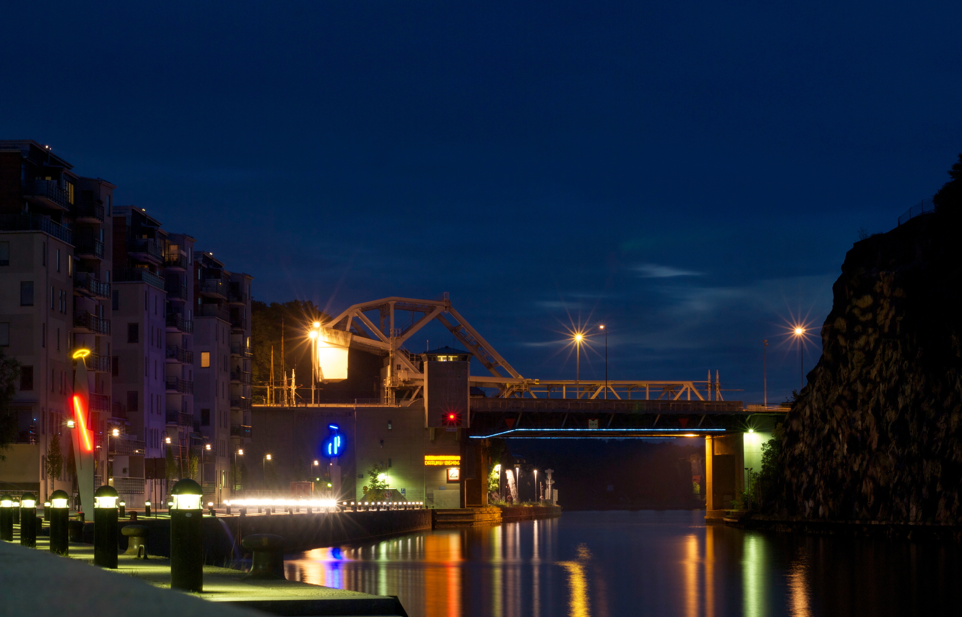 Danviksbron